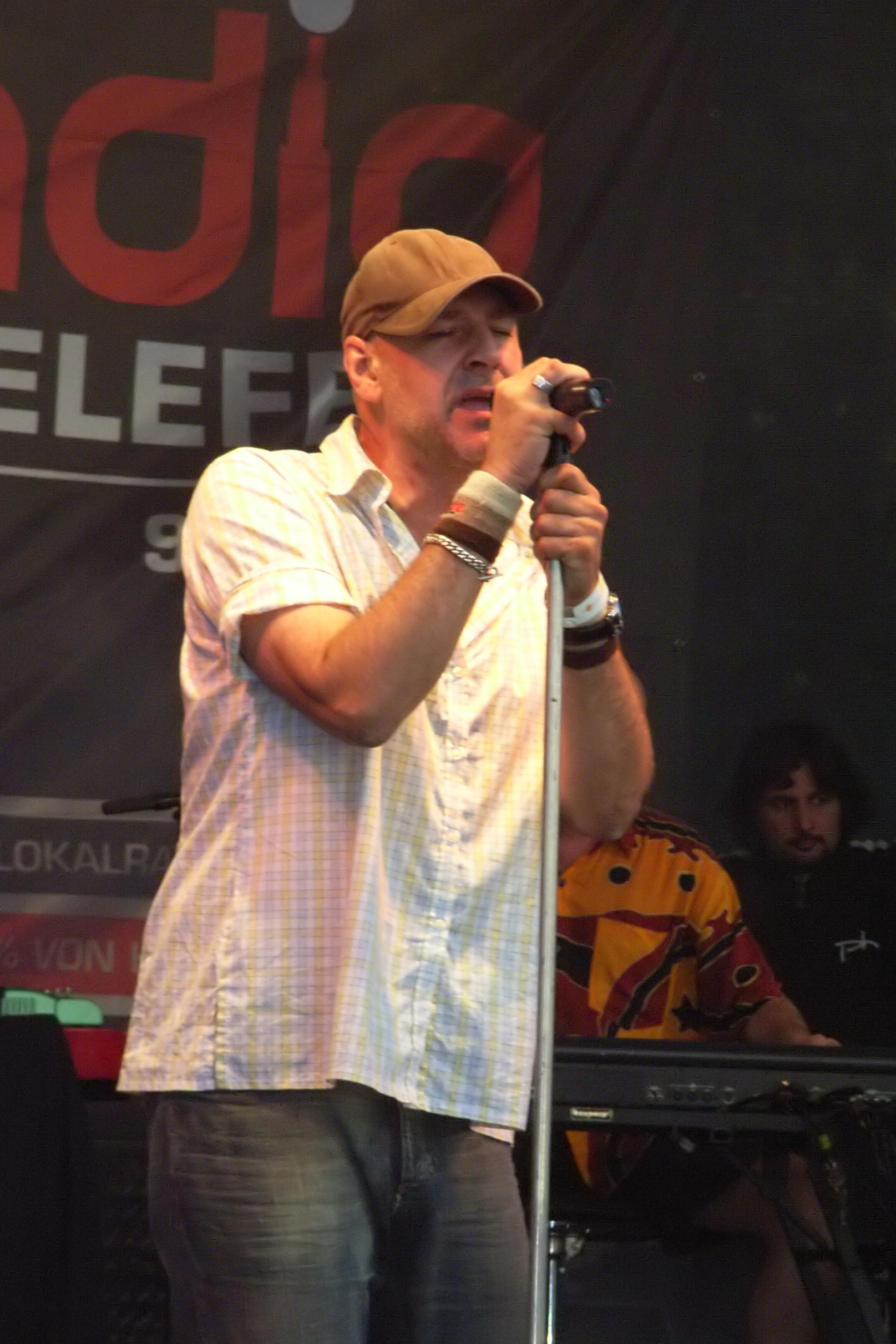 Kai Wingenfelder from Fury in the Slaughterhouse